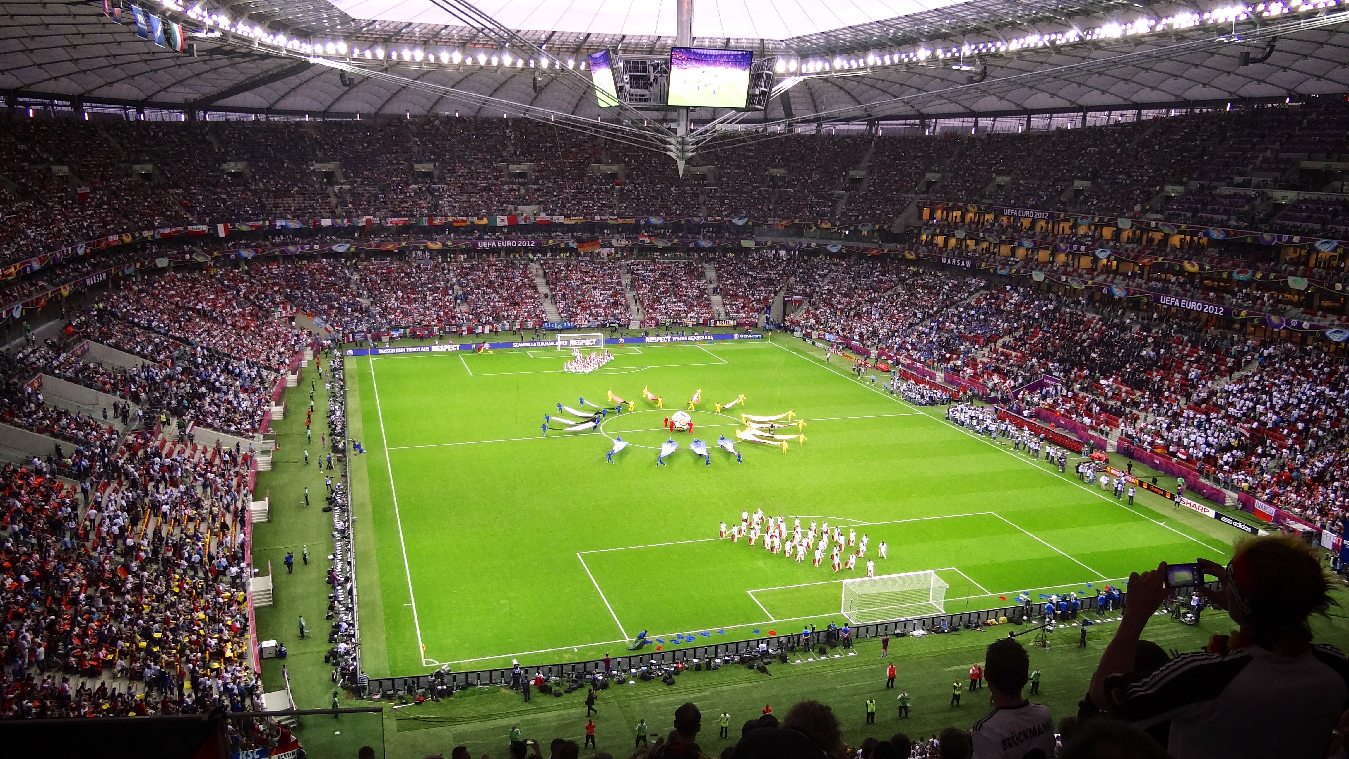 Germany - Italy game's ceremony, UEFA Euro 2012.